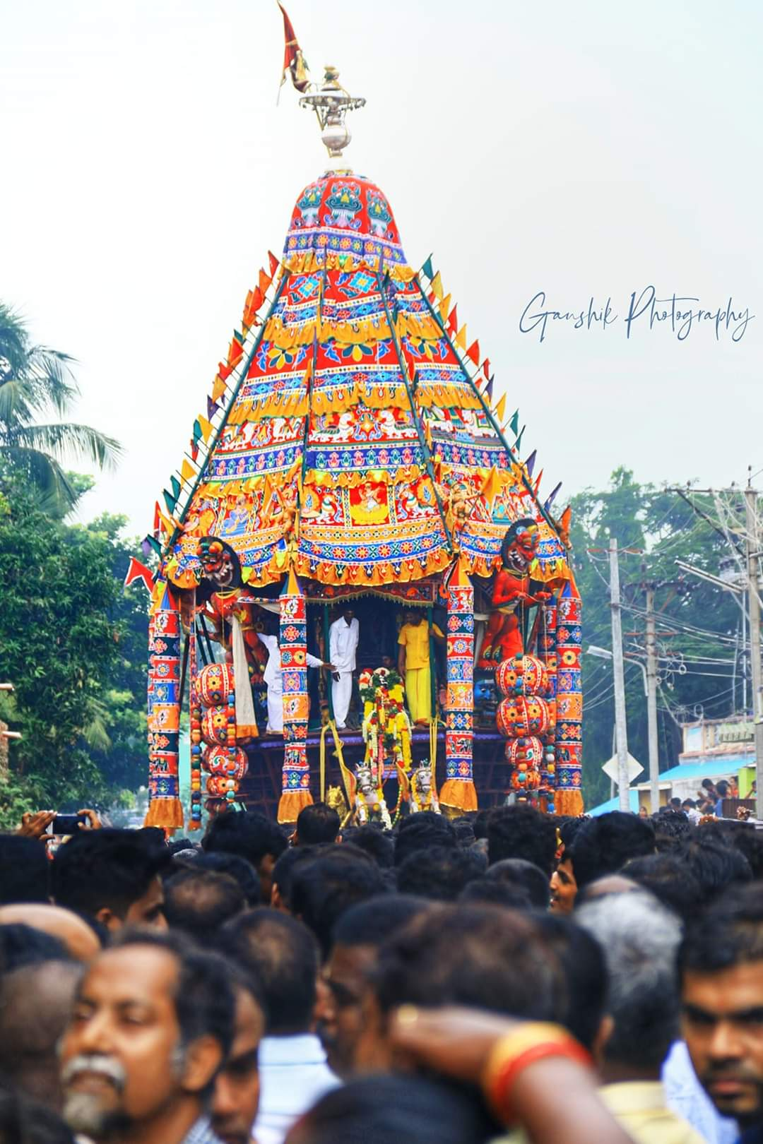 This Picture Represents A Religious Festival that is Held at Veerampatinam , Pondicherry , India . Named As " CAR FESTIVAL " This photo has been taken in the country: India